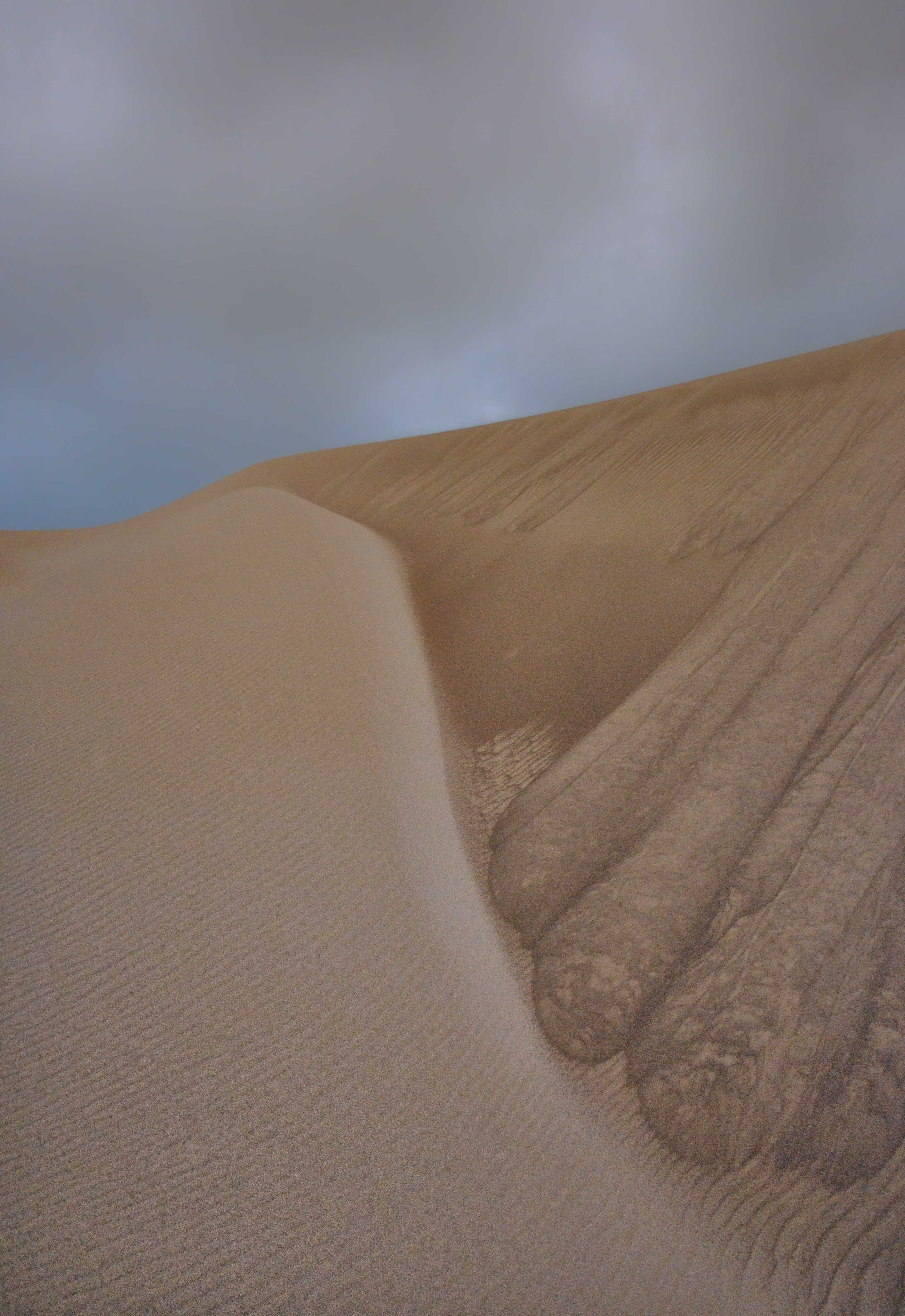 Sand Dunes, Socotra Island